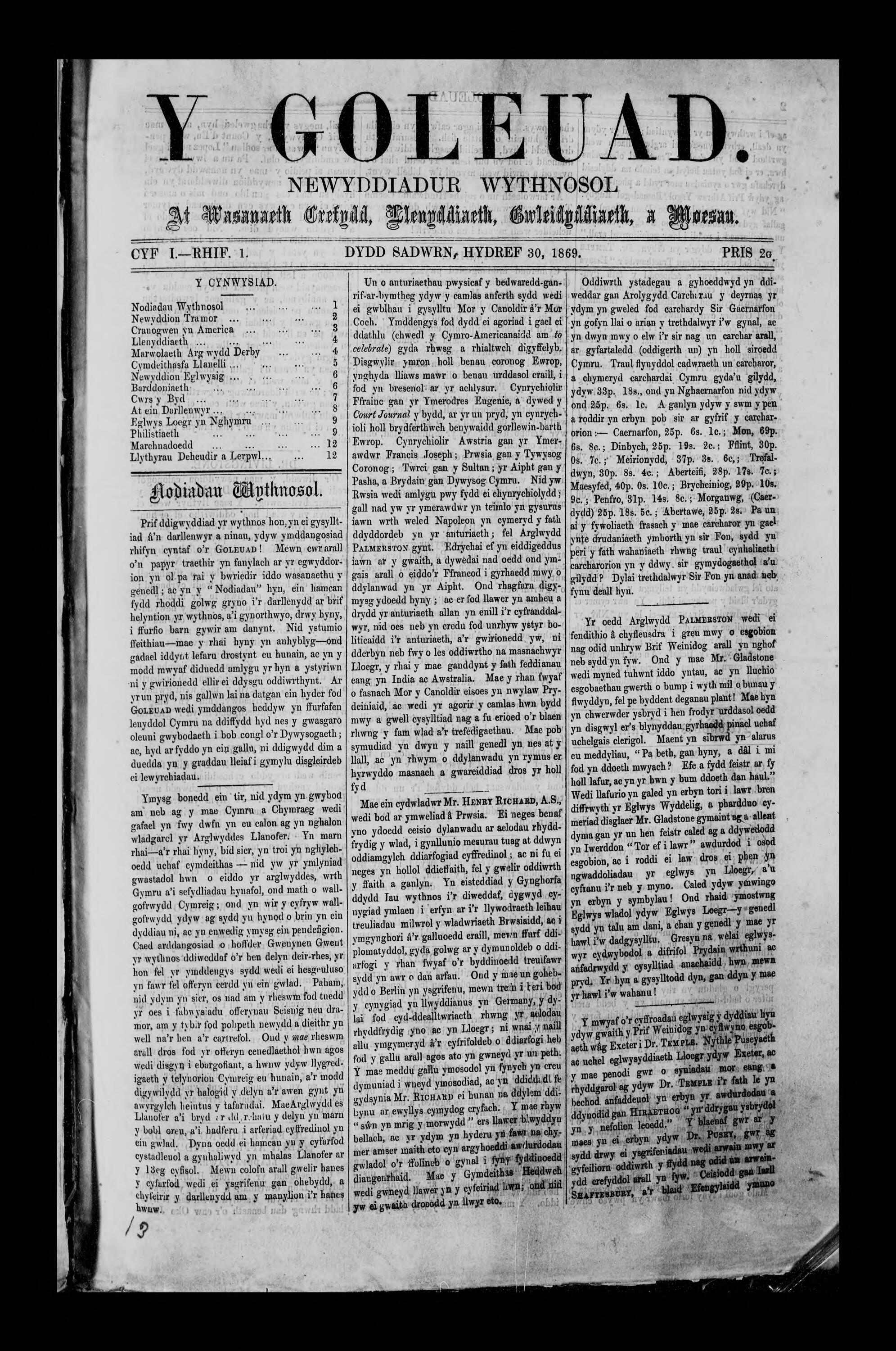 Front page of the earliest surviving copy of the Welsh newspaper Y GoleuadCymraeg: Tudalen flaen y copi cynharaf sydd yn bodoli o'r papur newydd Cymraeg Y Goleuad